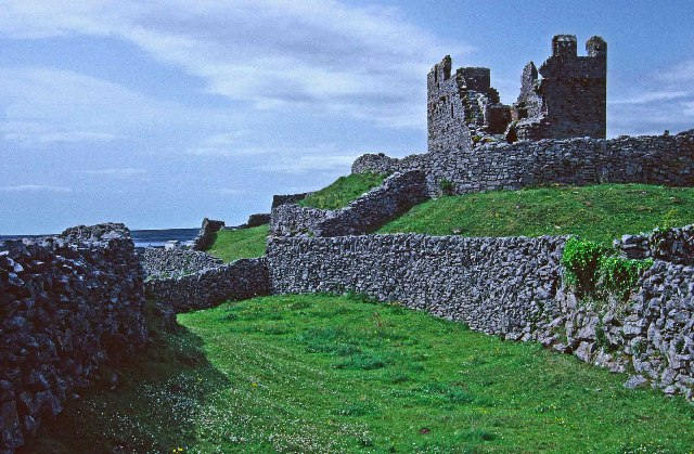 O'Brien's Castle, Inisheer, Aran Islands, Ireland